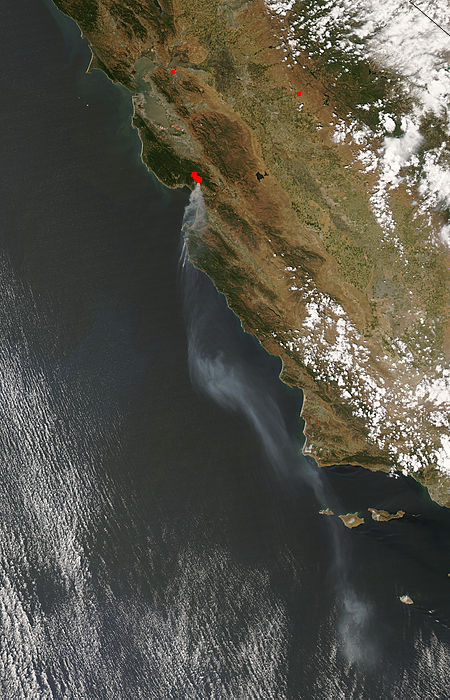 projection: Plate Carree projection center lon: -121.5000 projection center lat: +35.5000 image center lon: -121.5 image center lat: +35.5 UL lon: -123.9688 UL lat: +38.6472 UR lon: -119.0284 UR lat: +38.6472 LR lon: -119.0284 LR lat: +32.3519 LL lon: -123.9688 LL lat: +32.3519 UL easting (km): -224.8750 UL northing (km): +4297.3750 x scale factor: +0.8191520442889918 ellipsoid: WGS84